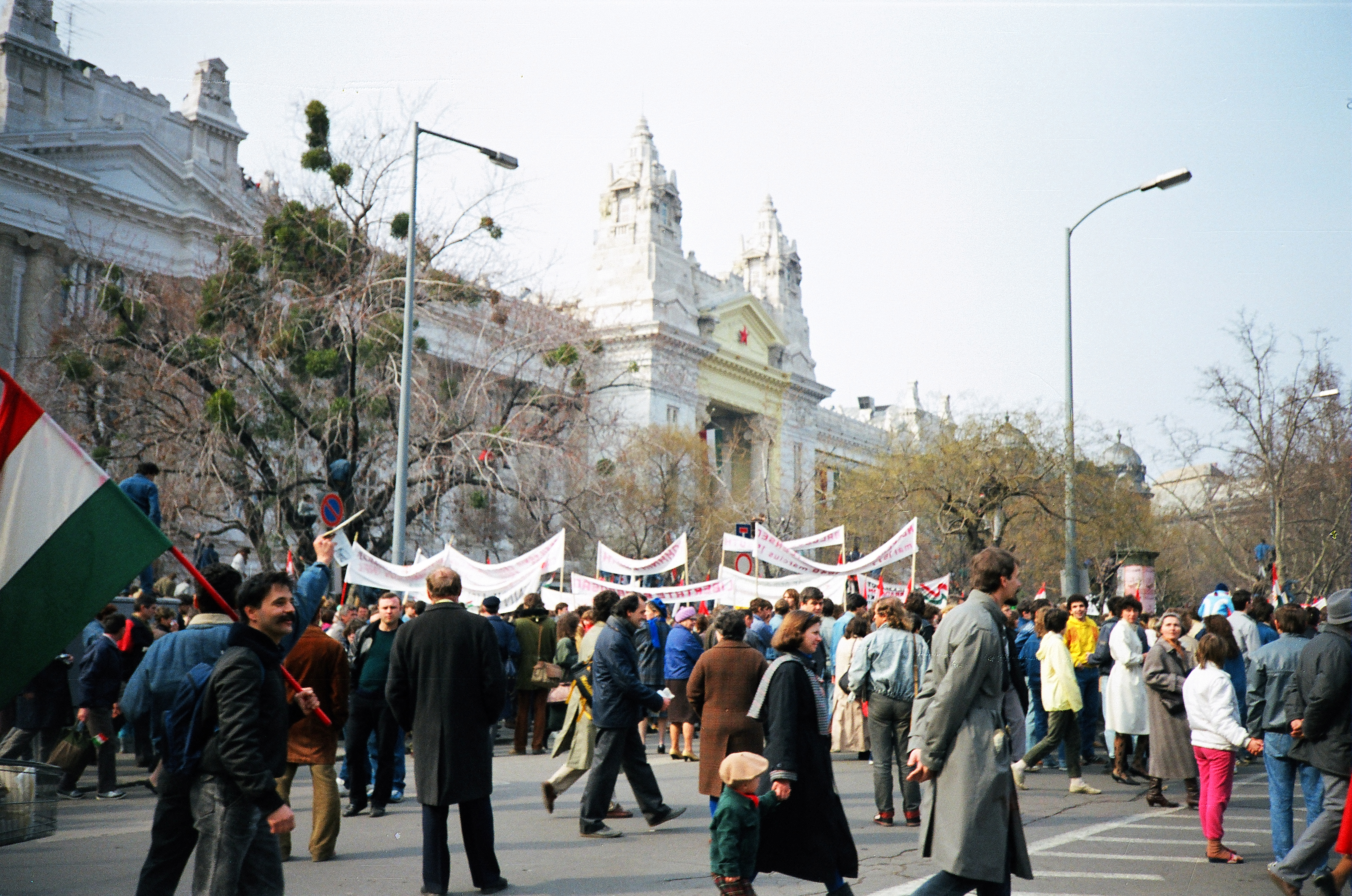 Live on the 15th of March, 1989. Hungary, Budapest, the statue of Petőfi Sándor, Szabadság square, Kossuth square, Pest bridgehead of the Margaret bridge. After decades of forbidden national days, on the 15th of March, 1989, the communist regime of Hungary allowed people to celebrate 1948 –1949 revolution. Parallel with the state celebration at the National Museum, independant organisations called the public to gather at the statue of Petőfi Sándor. Published under Creative Commons in the Metapolisz DVD line. All of the photos and vids in the Metapolisz DVD line are under Creative Commons and can be used even for commercial – for profit – purposes. Recommended Citation Derzsi Elekes Andor: Metapolisz DVD line Megjelent Creative Commons alatt a Metapolisz sorozatban. A Metapolisz sorozat valamennyi képe és filmje Creative Commons alatti valamint kereskedelmi - for profit - célra is felhasználható. Ajánlott hivatkozás: Derzsi Elekes Andor: Metapolisz DVD line Tags: Hungary Magyarország 1989 March the 15th Budapest change of the system Bégány Attila Derzsi Elekes Andor Metapolisz Nemzeti Ünnep – Budapest, 1989.03.15 A felvétel 1989. március 15 –én, szerdán készült, Budapesten, a Petőfi szobornál (1, 2), a Szabadság téren (3, 4), a Kossuth téren (5, 6) illetve a Margit híd pesti hídfőjénél (7). A cellulóz film jpg formátumra szkennelt előhívása. Plakátok: 1. IGAZ…………..ÉST !, 2………MEDIKUS CSOPORT, 3. RENDŐRÁLLAM HELYETT JOGÁLLAMOT ! 4. BO……..hogy Források: Petőfi szobor, Szabadság tér: MDF fáklyás felvonulás: Állambiztonsági jelentés: (Napi Operatív Információs Jelentés) 23. oldal 1989. március 15 – Az ellenzék előszőr mutatta meg az erejét Március 15-e a magyar fővárosban Címkék: Nemzeti Ünnep 1989. március 15 Budapest Magyarország Petőfi szobor Szabadság tér Kossuth tér Margit híd rendszerváltás Bégány Attila Derzsi Elekes Andor Metapolisz